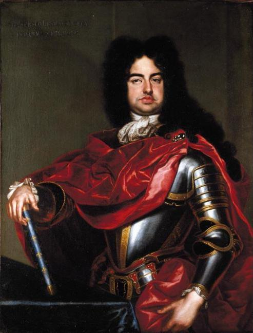 Portrait of Francesco Farnese, Duke of Parma (1678-1727), misidentified with his brother Antonio Farnese, Duke of Parma (1679-1731)